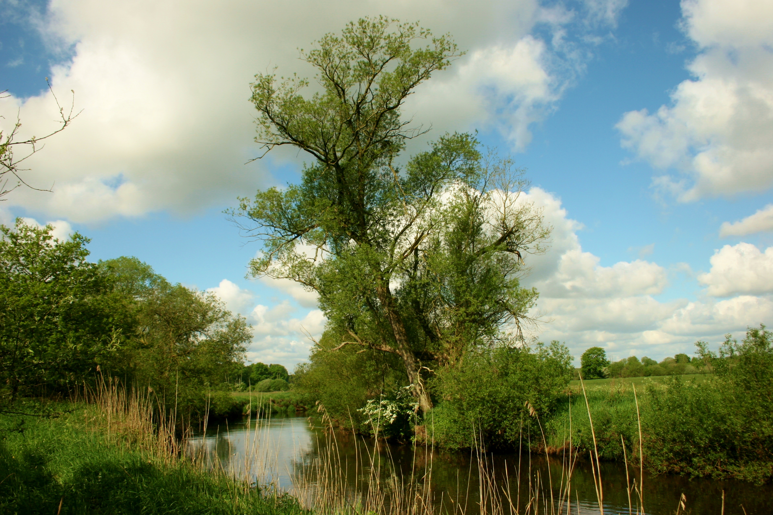 The Wümme in beautiful spring weather in the FFH area "Wümmeniederung" in the district of Rotenburg (Wümme) (Lower Saxony, Germany).